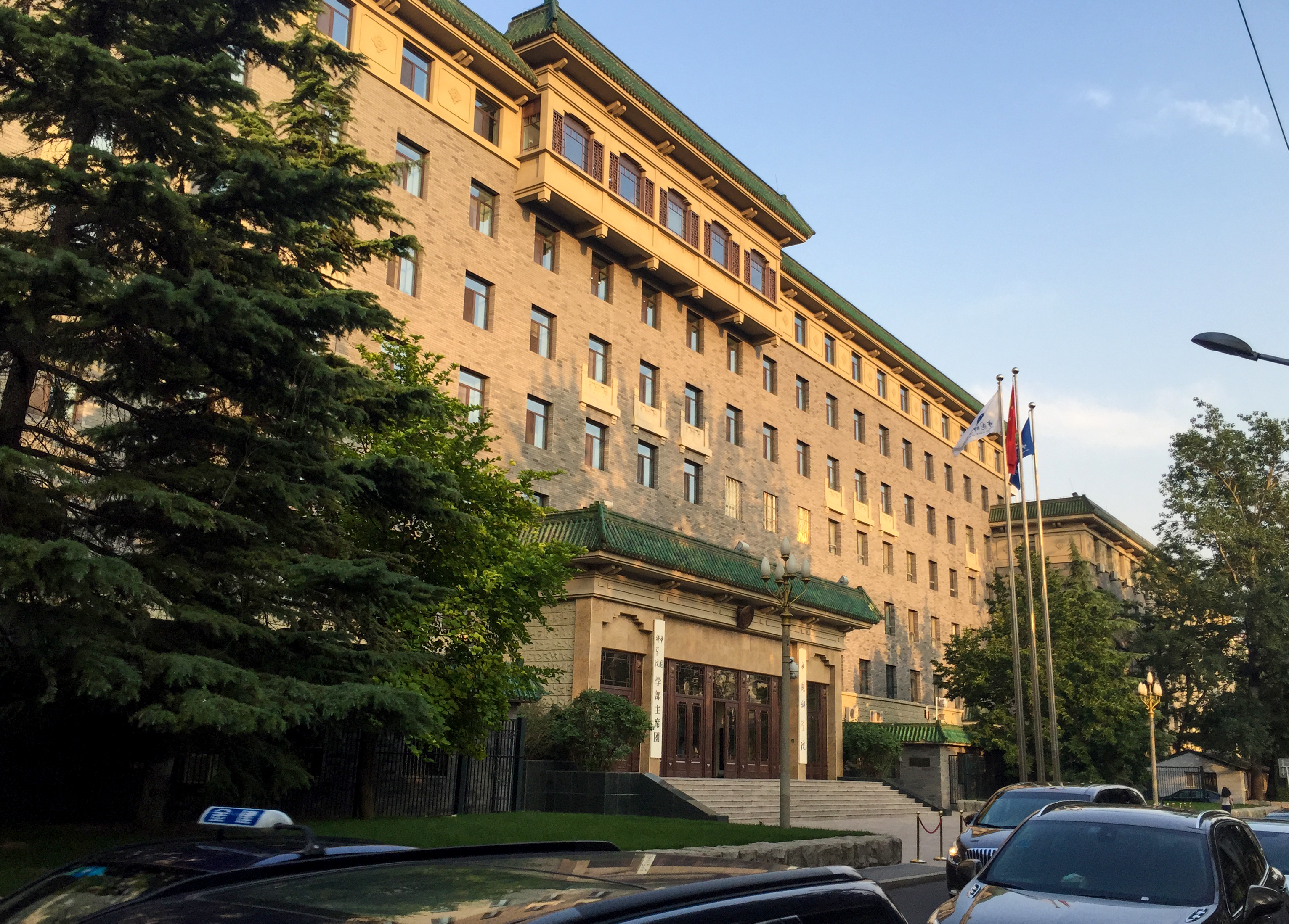 Muxidi North... with some other firms.